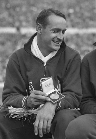 1952 Press Photo Walt Davis and Lt. Ken Wiesner with Olympic Medals High Jump